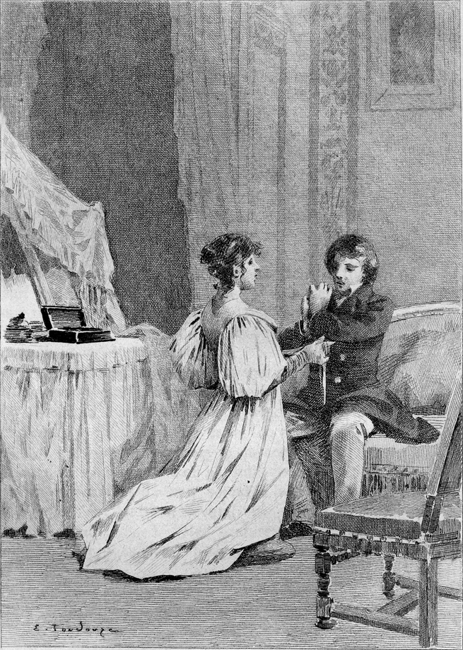 Illustration of Honoré de Balzac's The Lily of the Valley (1836).